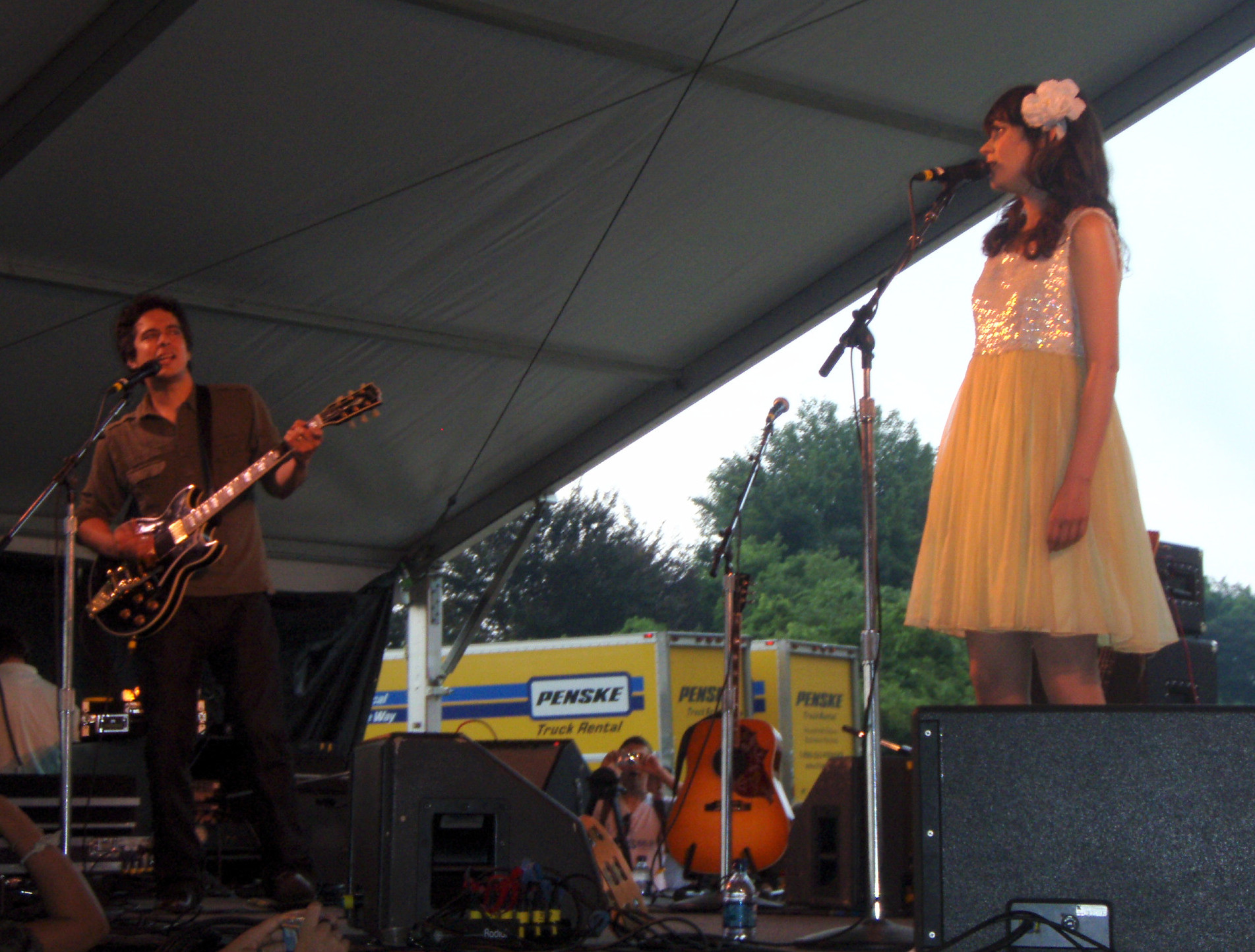 M. Ward and Zooey Deschanel of She & Him at the Newport Folk Festival (2 August 2008)